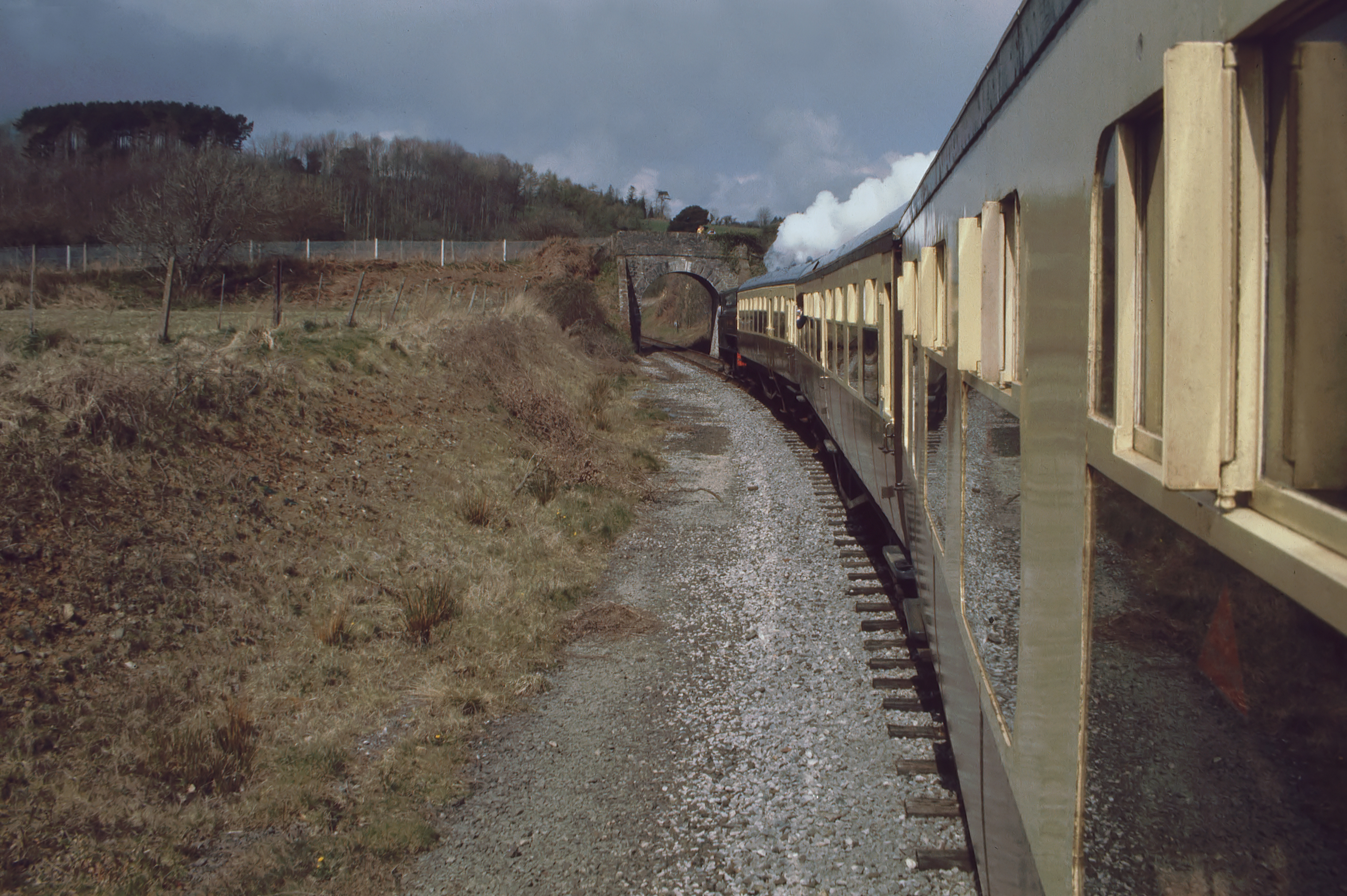 South Devon Railway on its way from Buckfastleigh to Totnes